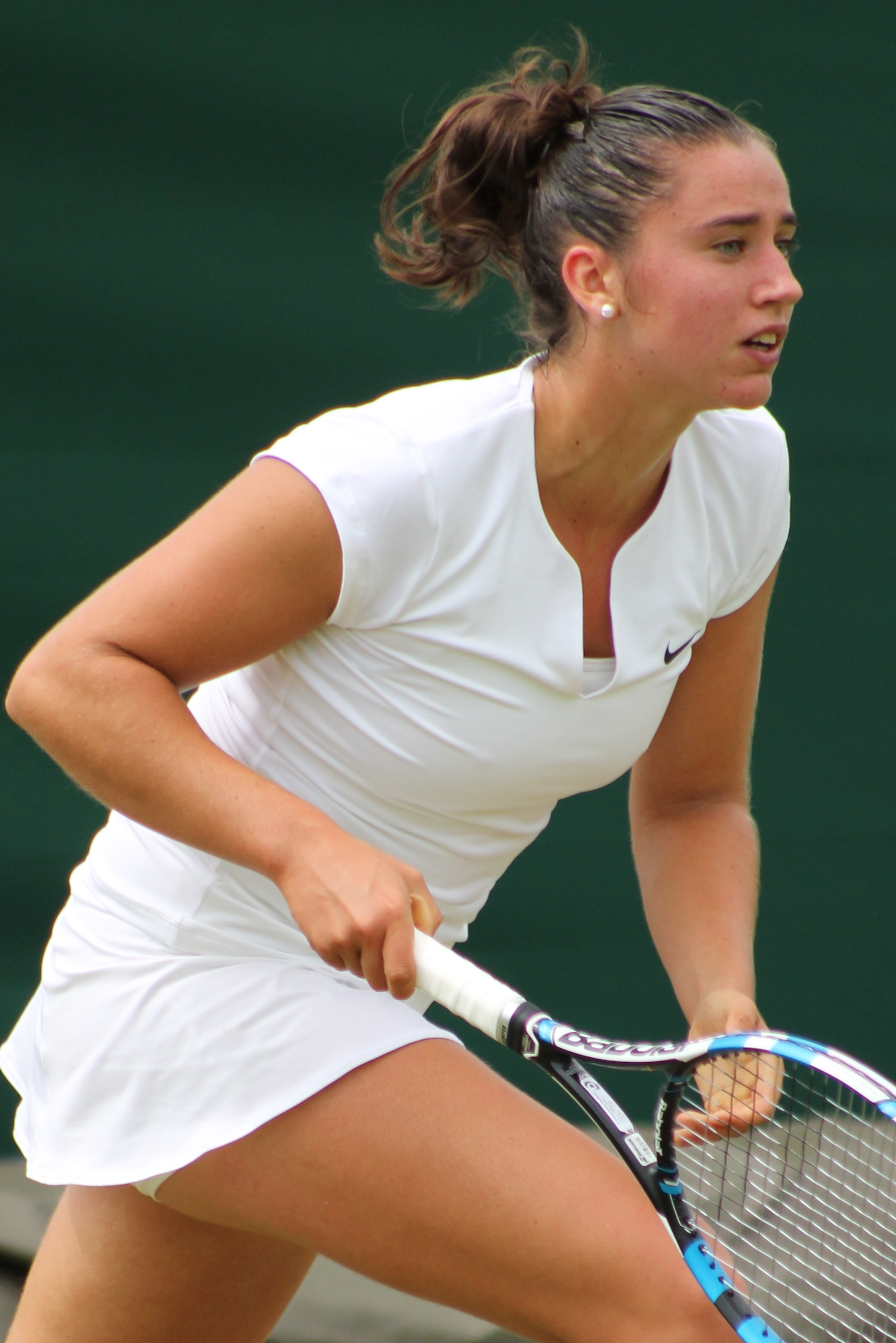 Sorribes Tormo WMQ15 (4)